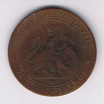 Spanish peseta 5 cents coin